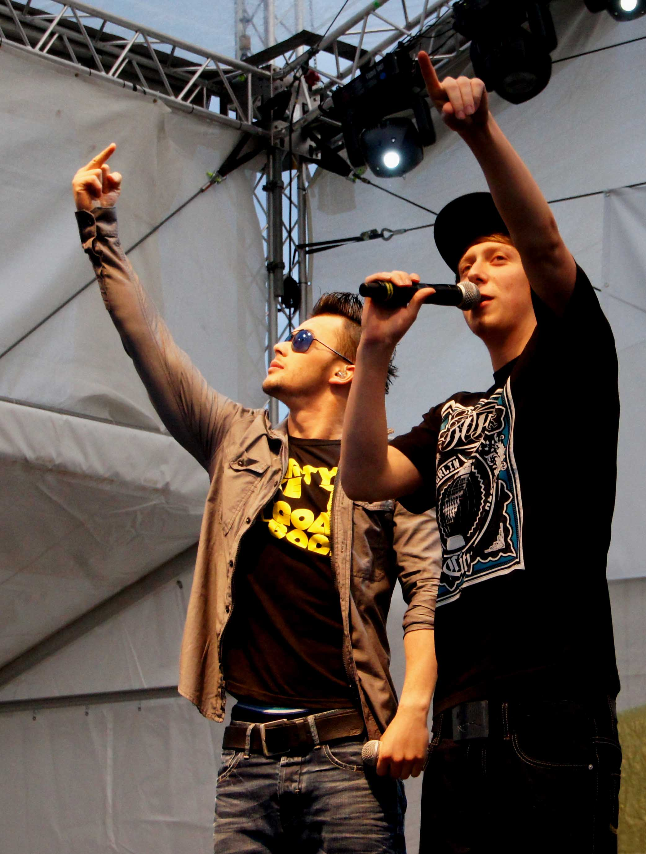 Trackshittaz is an Austrian hip-hop duo boyband, made up of Lukas Plöchl (left)and Manuel Hoffelner. As of 2012-05, they are going to represent Austria in Eurovision Song Contest 2012 with their song "Woki mit deim Popo" (which, in rough translation, means something like 'shake/jiggle/joggle/waggle/wiggle/wobble__your_ass.) [see dict.leo ;]